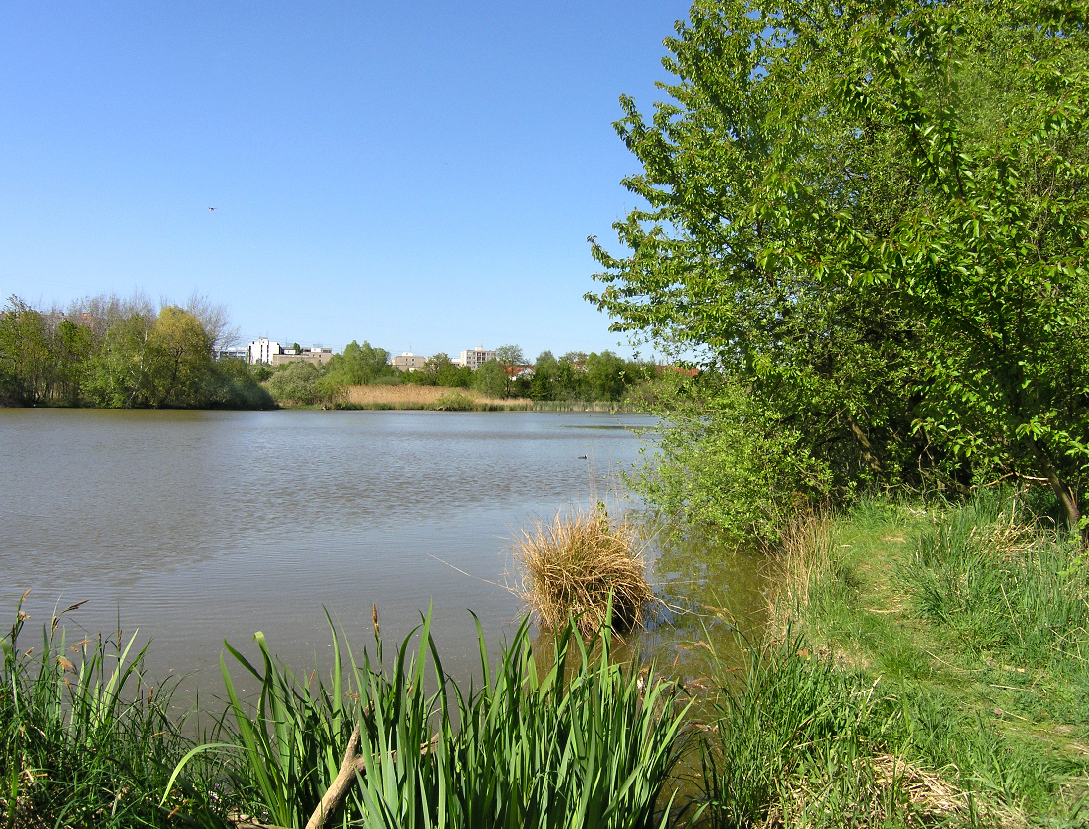 Milíčovský pond at Milíčovský forest, Prague